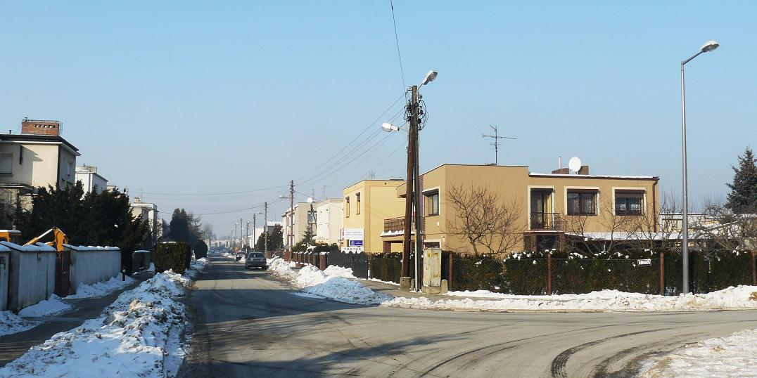 Osiedle Kwiatowe District in Poznan. Floksowa Street.